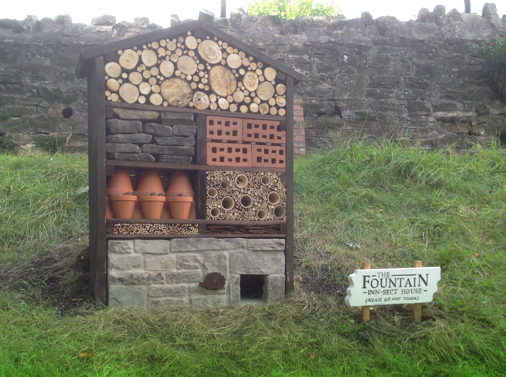 Insect house \ bug hotel at the Fountain Inn, Parkend, Forest of Dean, UK.